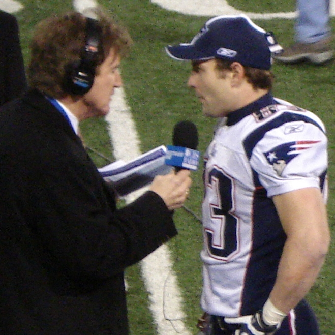 Wes Welker after the 16-0 game against New York Giants New version: Cropped with permission from Michigan10